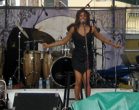 Jazz singer Aians St John performing at the Satchmo Summer Fest music festival in 2009.